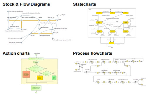 The picture shows different languarge constructions that are used in simulation modeling: statecharts, actioncharts, process flowcharts, stock & flow diagrams.